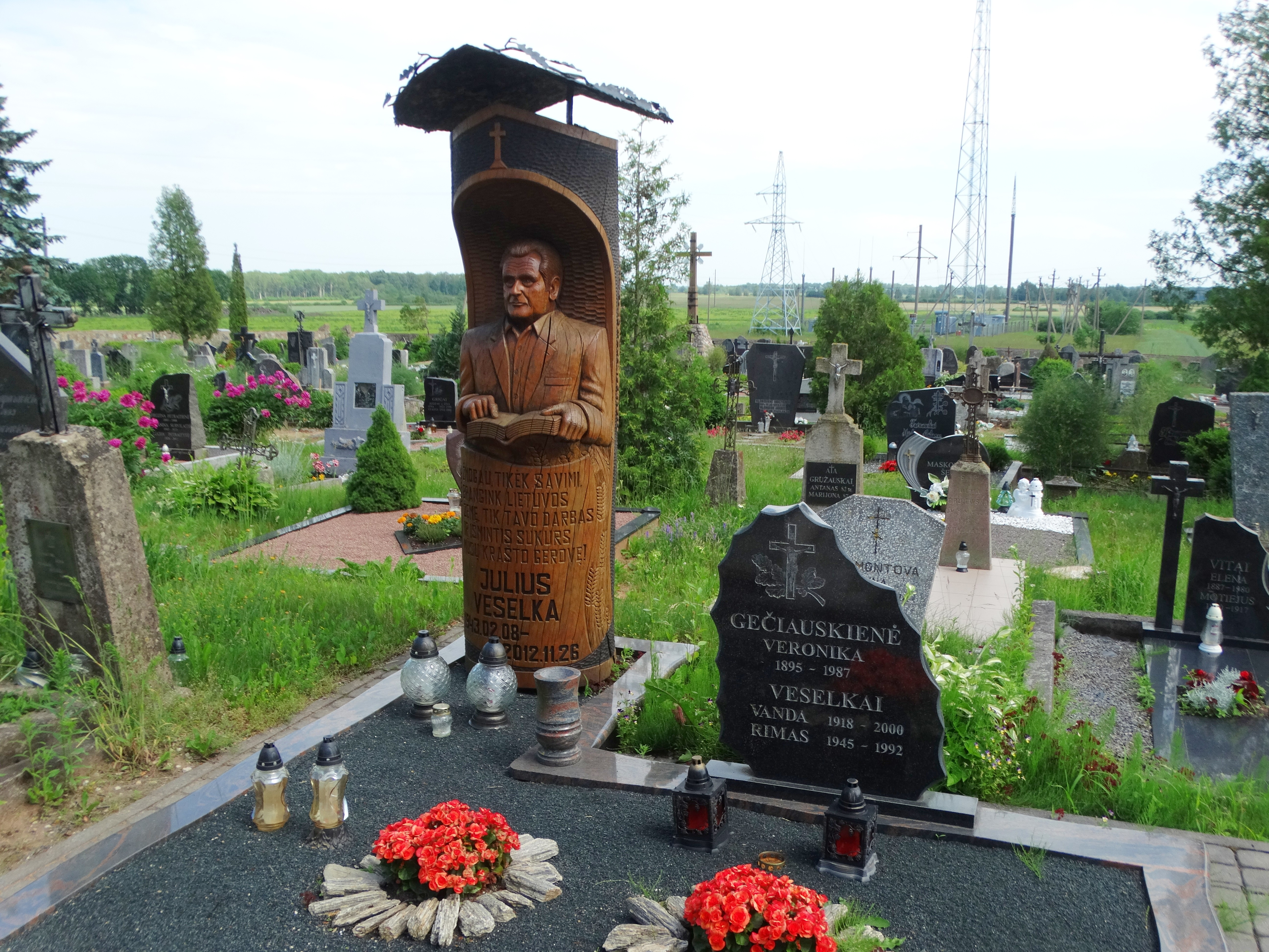 Siesikai, grave of Julius Veselka, Ukmergė district, Lithuania